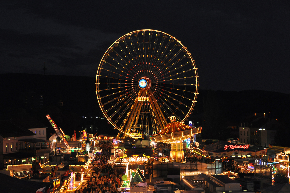 Ferris Wheel "Europa Rad"